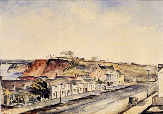 Bytown in 1853, Looking east along Wellington St. Wellington Street near Bank Street, Ottawa, 1853.